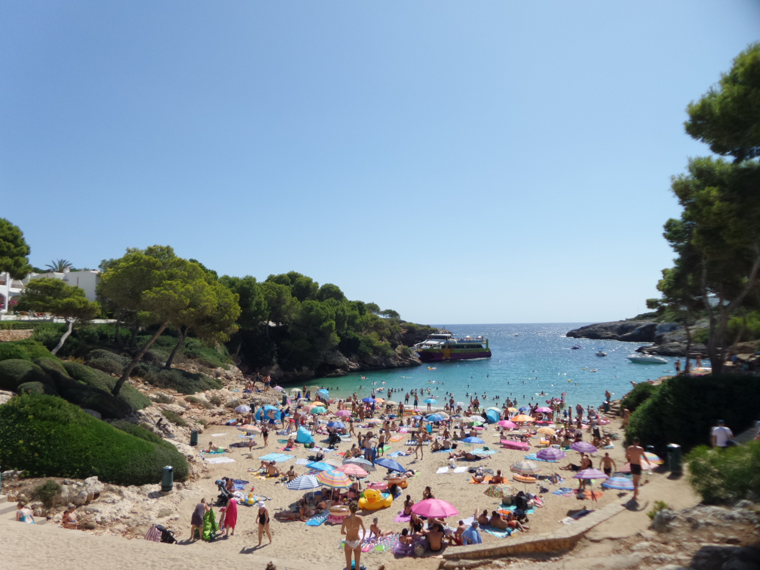 Cala Esmeralda (Bay) in Cala d'Or (Residential Area) von Cala d'Or (Township)